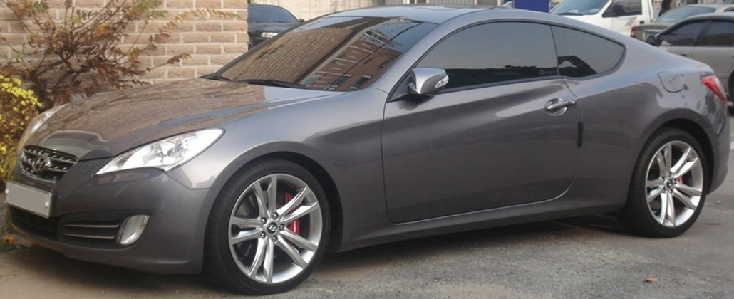 Hyundai Genesis Coupe